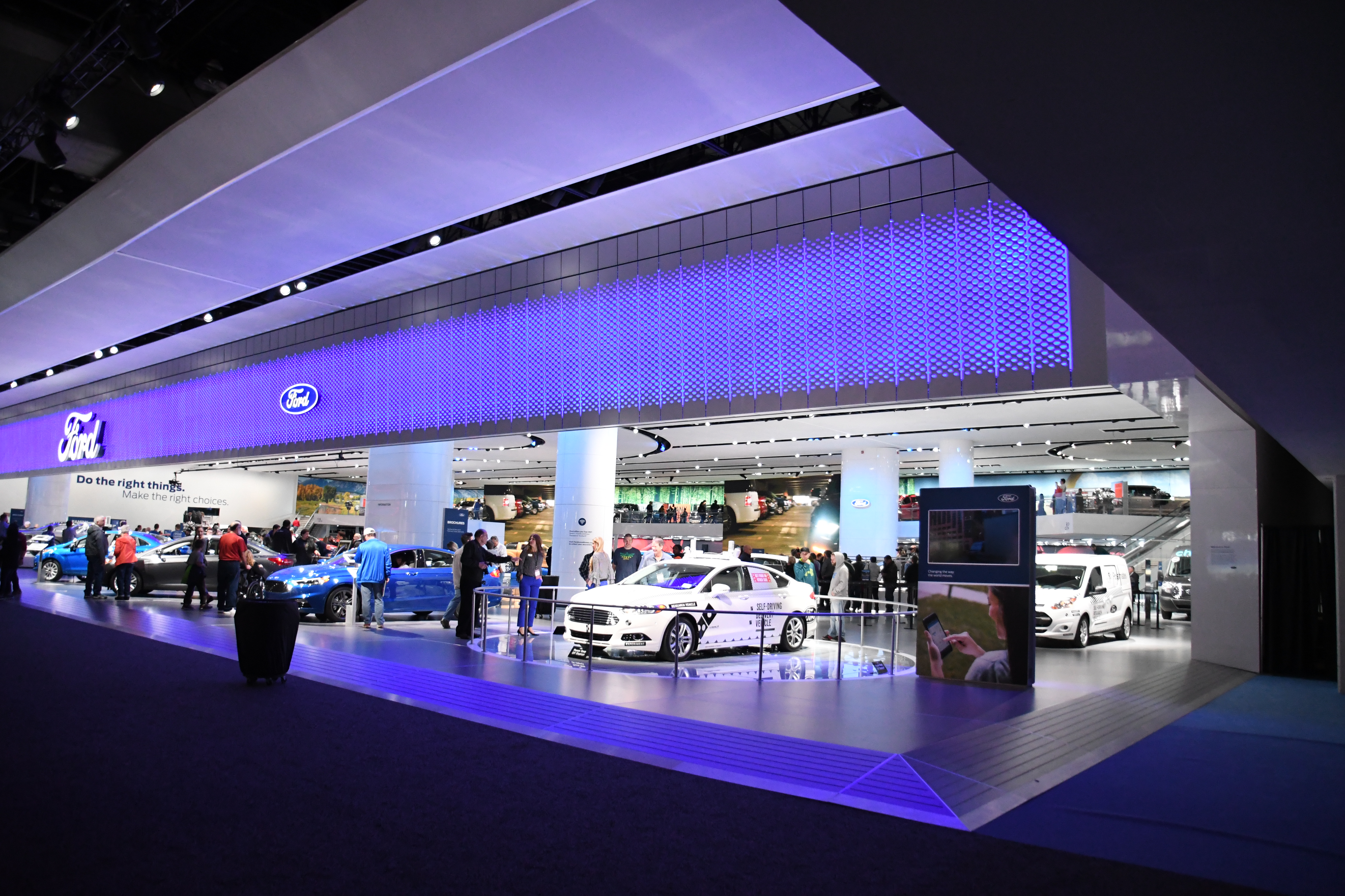 A scene from public display days of the 2018 North American International Auto Show held in Cobo Center in downtown Detroit, Michigan. January, 2018